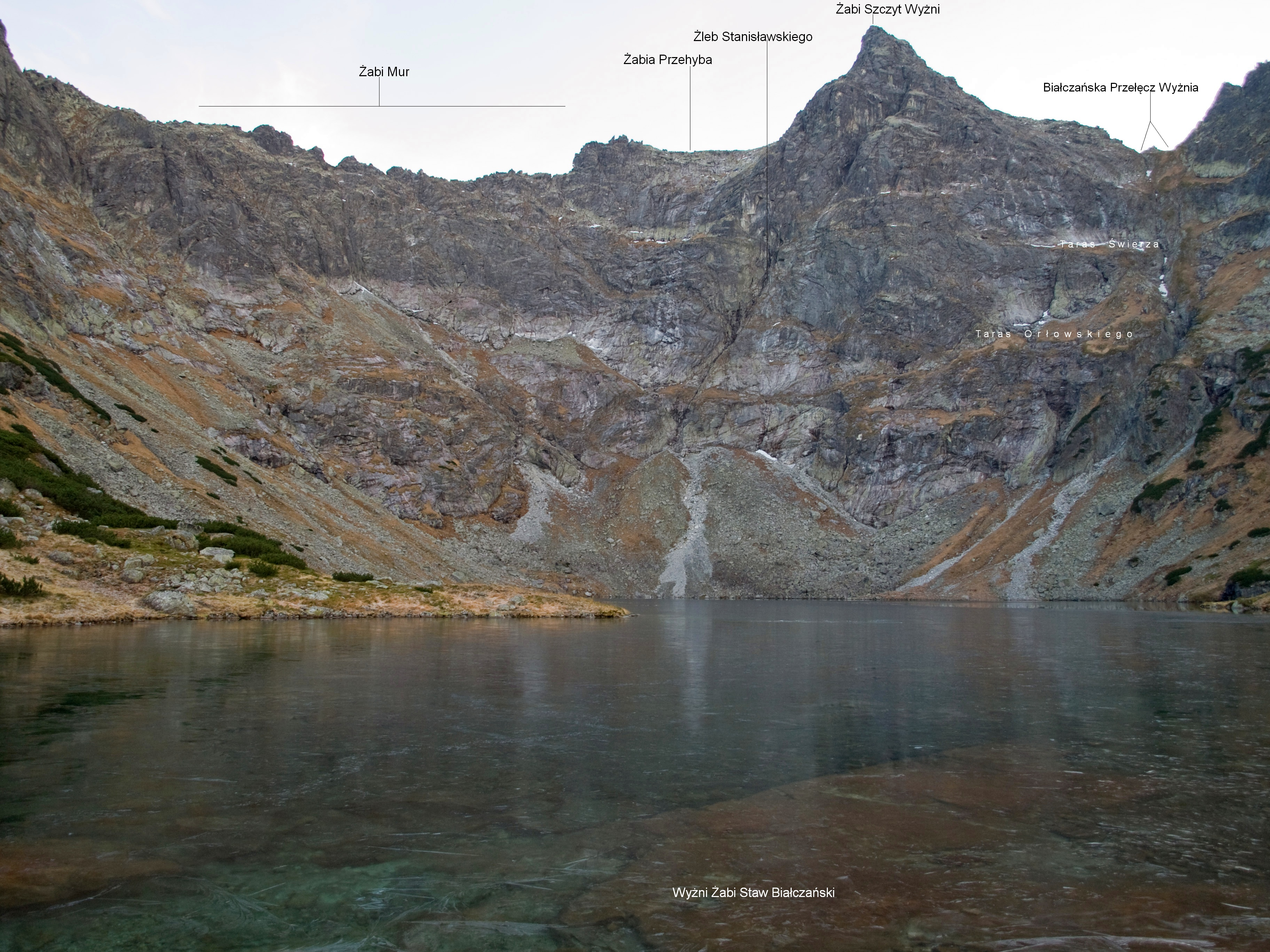 Wyżni Zabi Staw Bialczanski